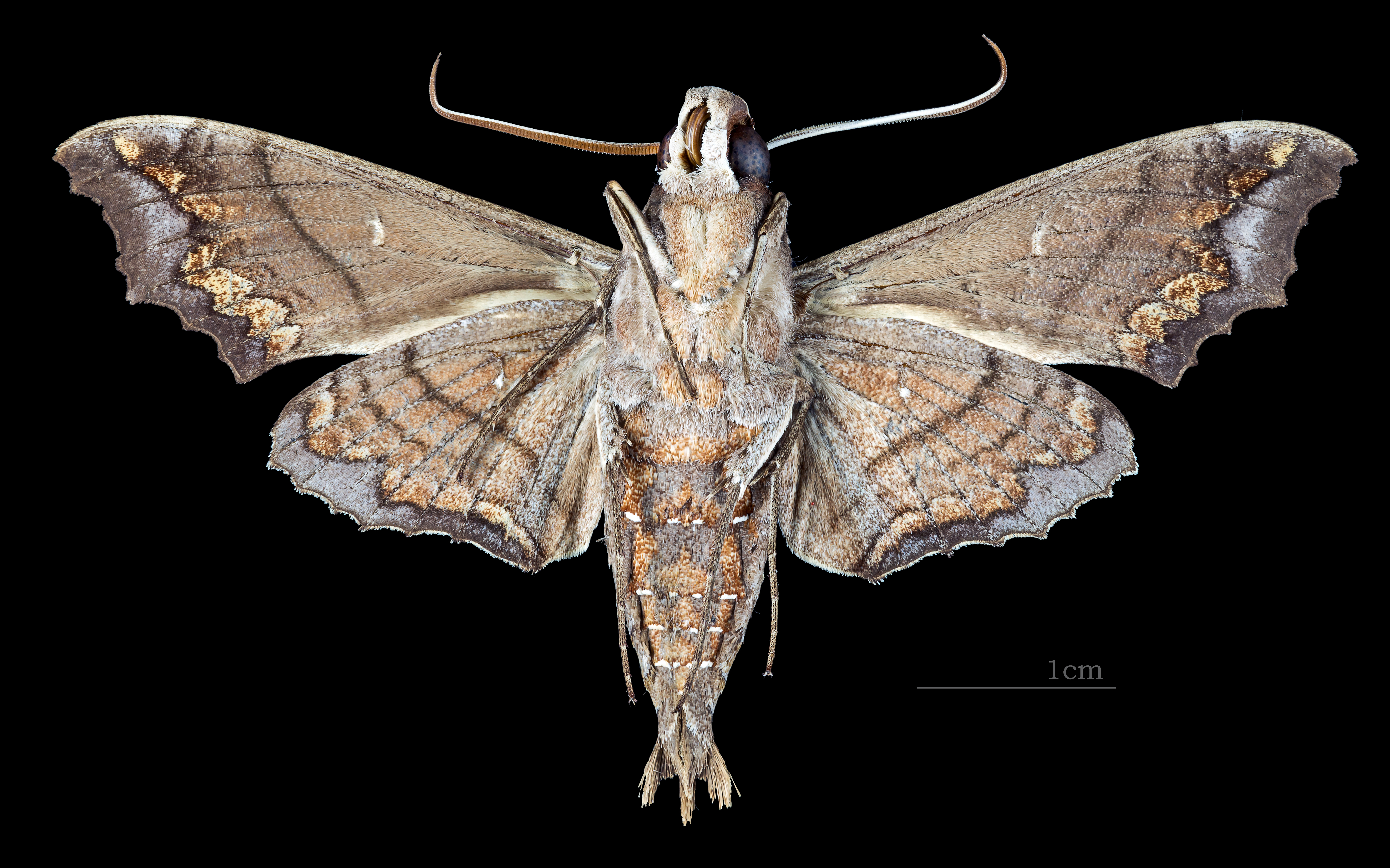 Hemeroplanes triptolemus - △ Ventral side Collection of the Mathematician Laurent Schwartz